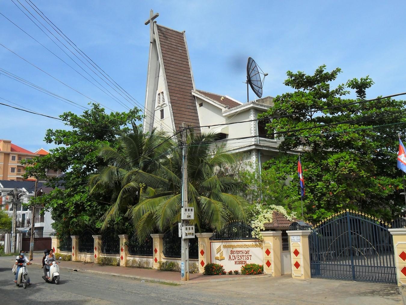 SDA 7th-Day Adventist Church nd Mission Centre, Phnom Penh, Cambodia